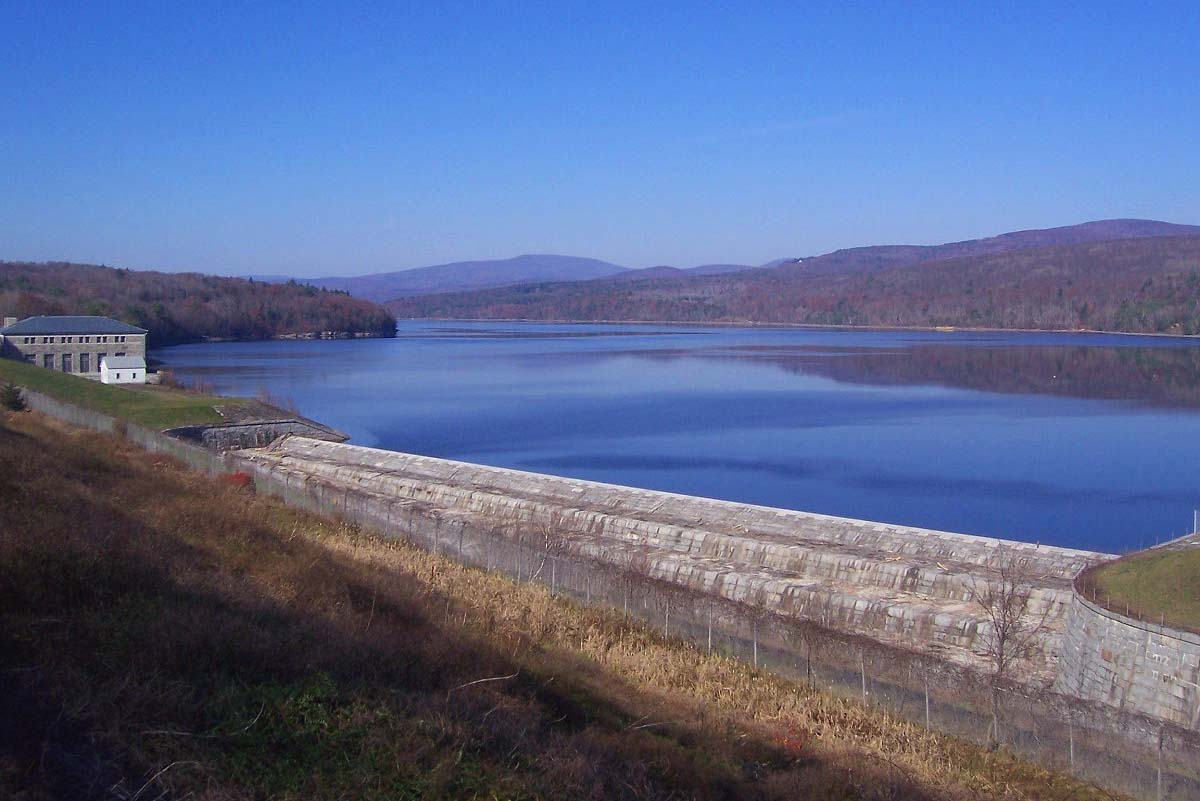 Photographed 2005-11-12 by Daniel Case